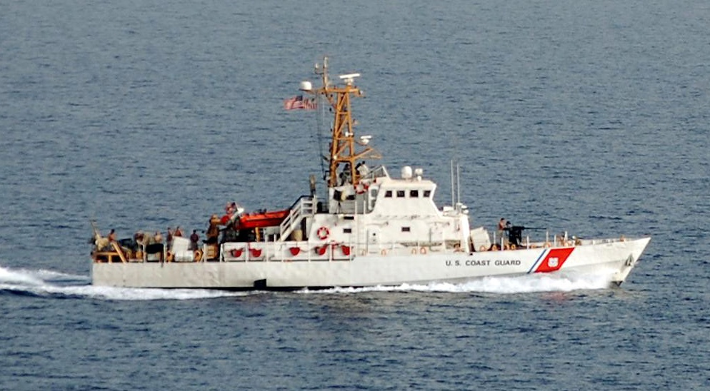 080410-N-0000O-005 PERSIAN GULF (April 10, 2008) The U.S. Coast Guard Island-class Cutter Maui (WPB 1304) transits alongside Nimitz-class aircraft carrier the USS Harry S. Truman (CVN 75). The cutter Maui, originally homeported in Miami, Fla., is one of six U.S. Coast Guard patrol boats assigned to Patrol Forces Southwest Asia in Bahrain as part of Combined Task Force 158. U.S. Navy photo by Lt. Cmdr. Steve Mavica (Released)